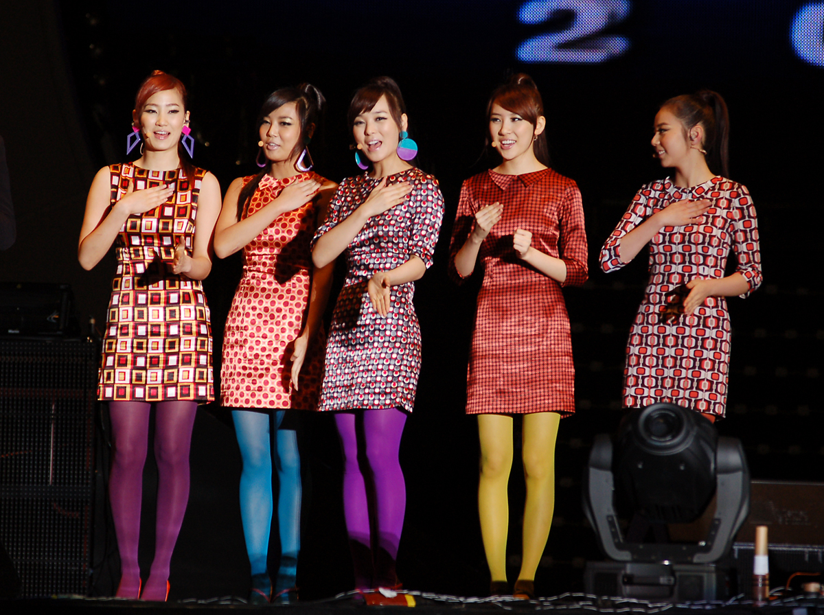 The Wonder Girls at the 2008 Korea Food Expo opening ceremony